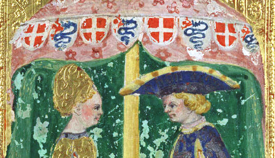 detail from the lovers card from the Visconti Cary-Yale tarot deck.